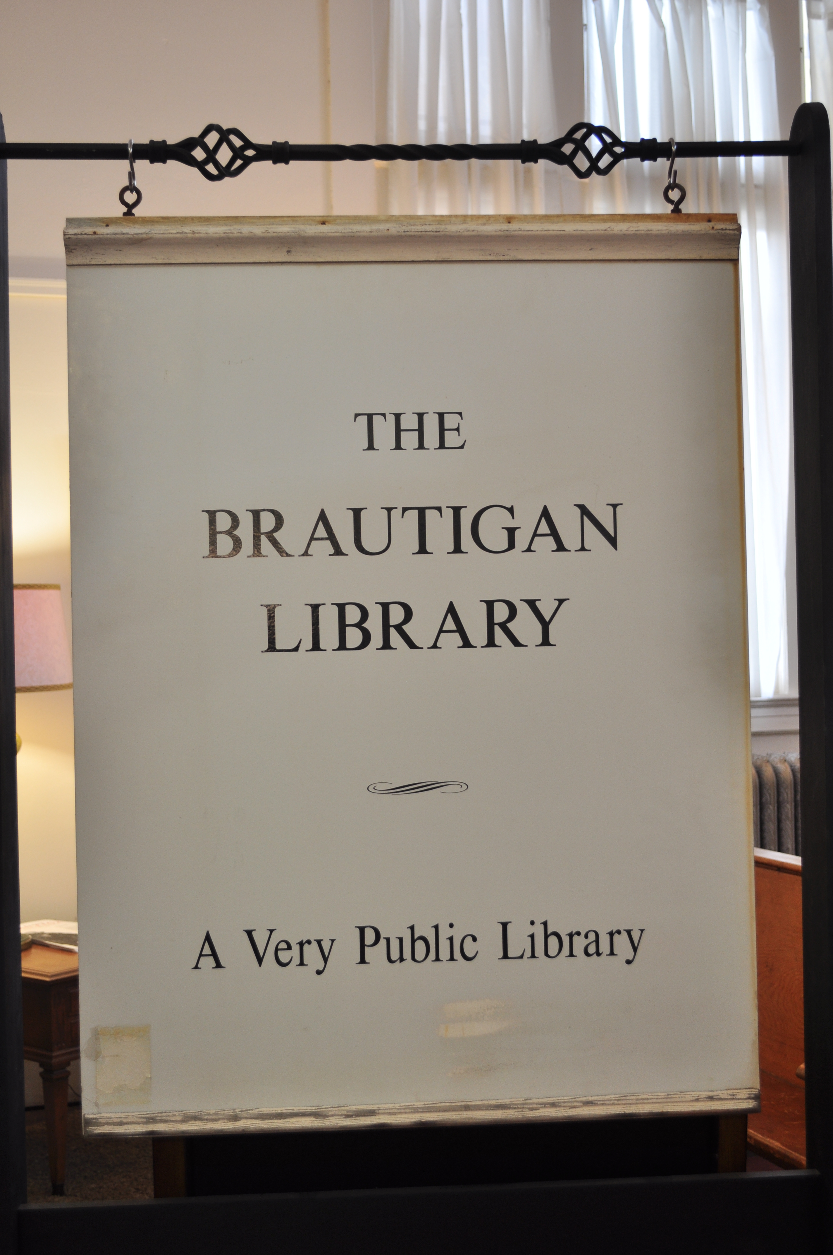 Sign for the Brautigan Library at Clark County Historical Museum (former Carnegie Library), Vancouver, Washington. The Brautigan Library is a library of unpublished manuscripts, inspired by Richard Brautigan's novel The Abortion: An Historical Romance 1966 (1971).